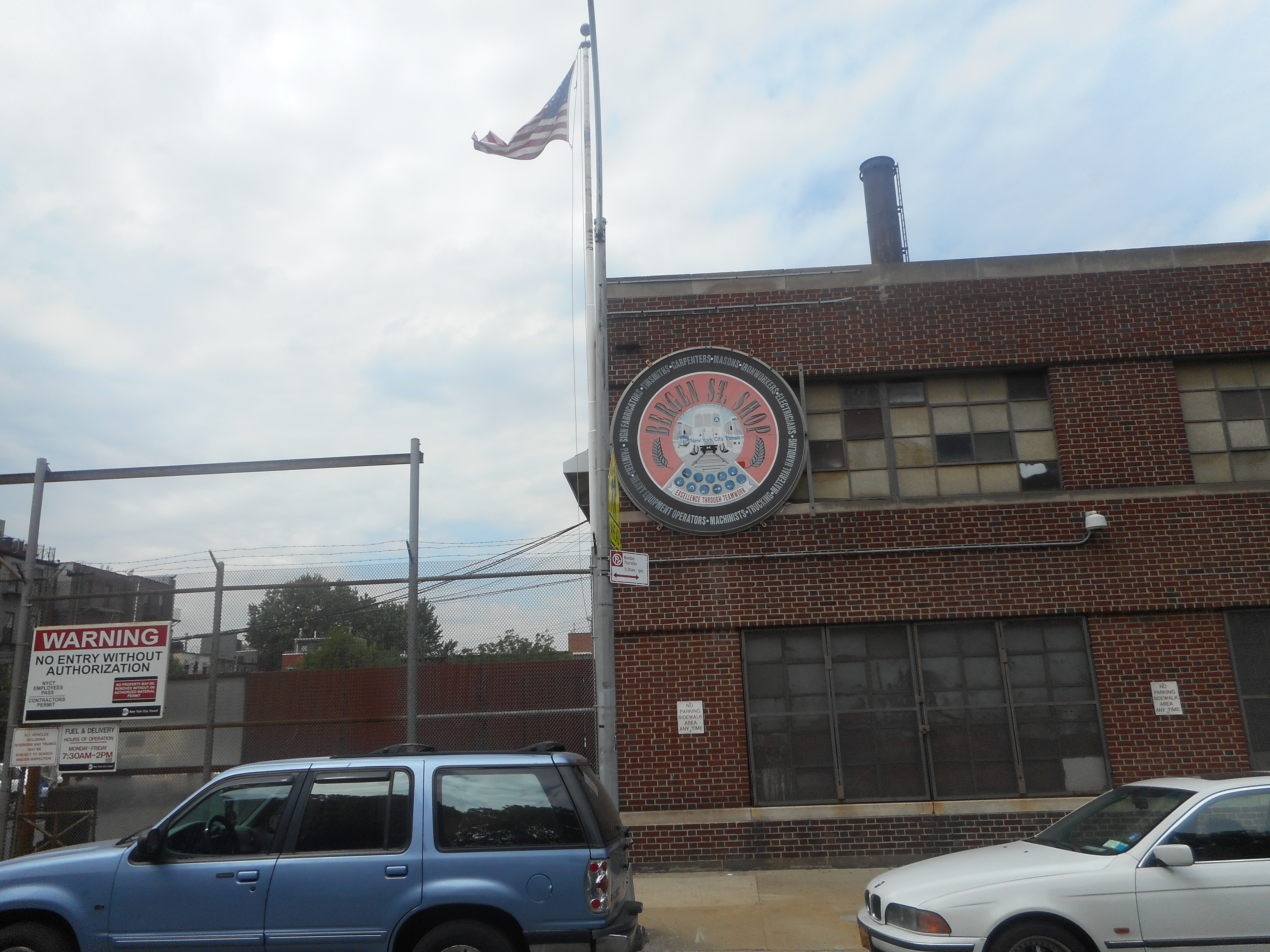 Exterior shot of the New York City Transit Sign Shop on Bergen Street between Albany and Troy Avenues roughly within the Crown Heights section of Brooklyn, New York City. The shop was originally the Bergen Street Trolley Coach Depot, a streetcar barn by the Brooklyn, Queens County and Suburban Railroad, then a B&QT bus garage for trolleybuses and diesel buses until July 27, 1960 when all buses were moved to Fresh Pond Depot.